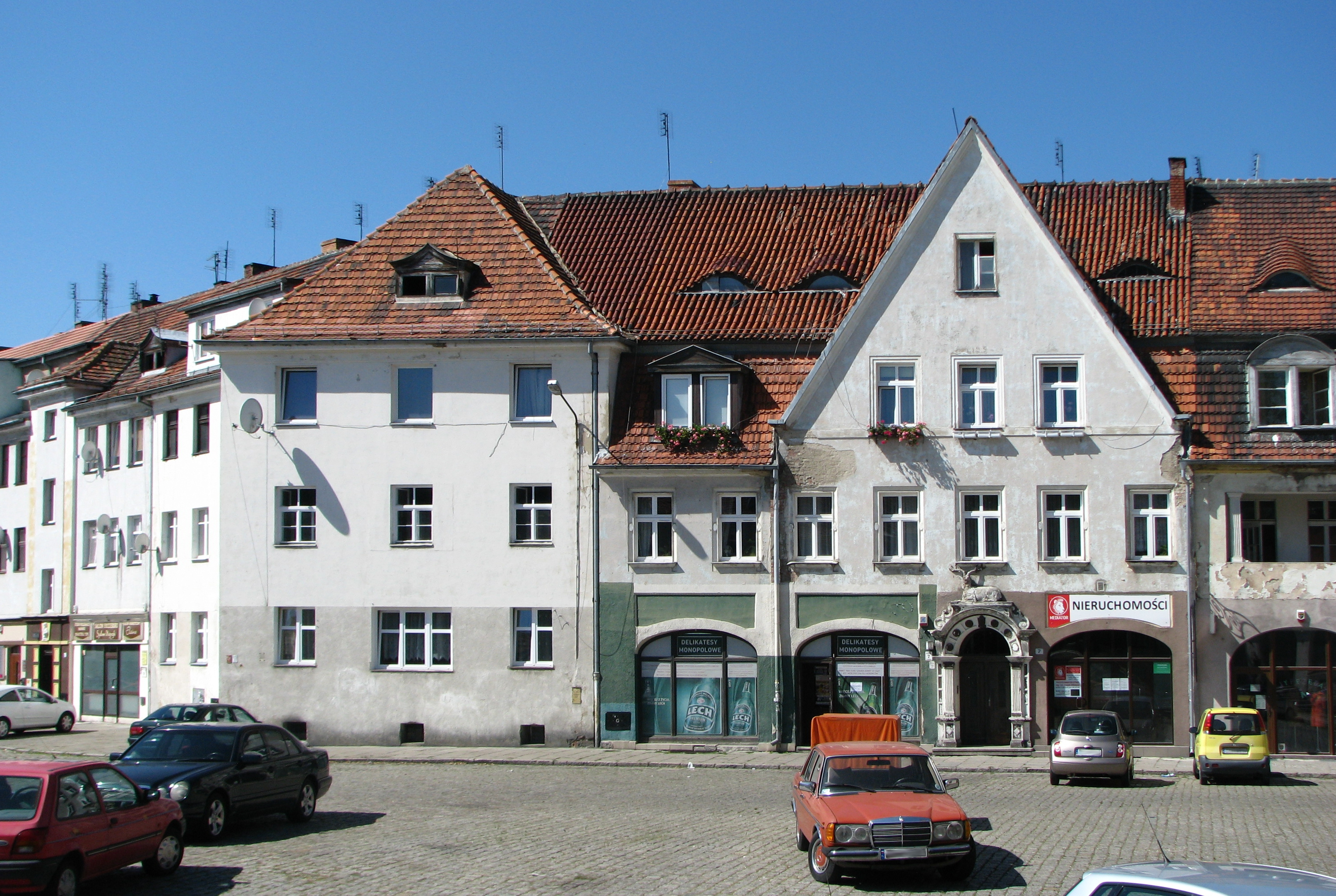 House at 7 Piłsudskiego Square, Wrocław, Poland. Cultural heritage monument.